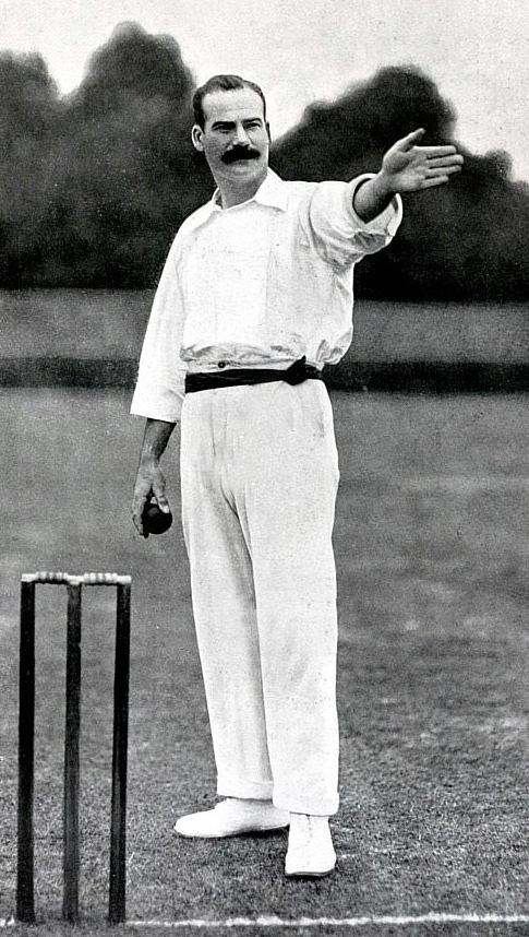 Arthur Webb Mold, Lancashire, (1889-1901) and England, (1893)